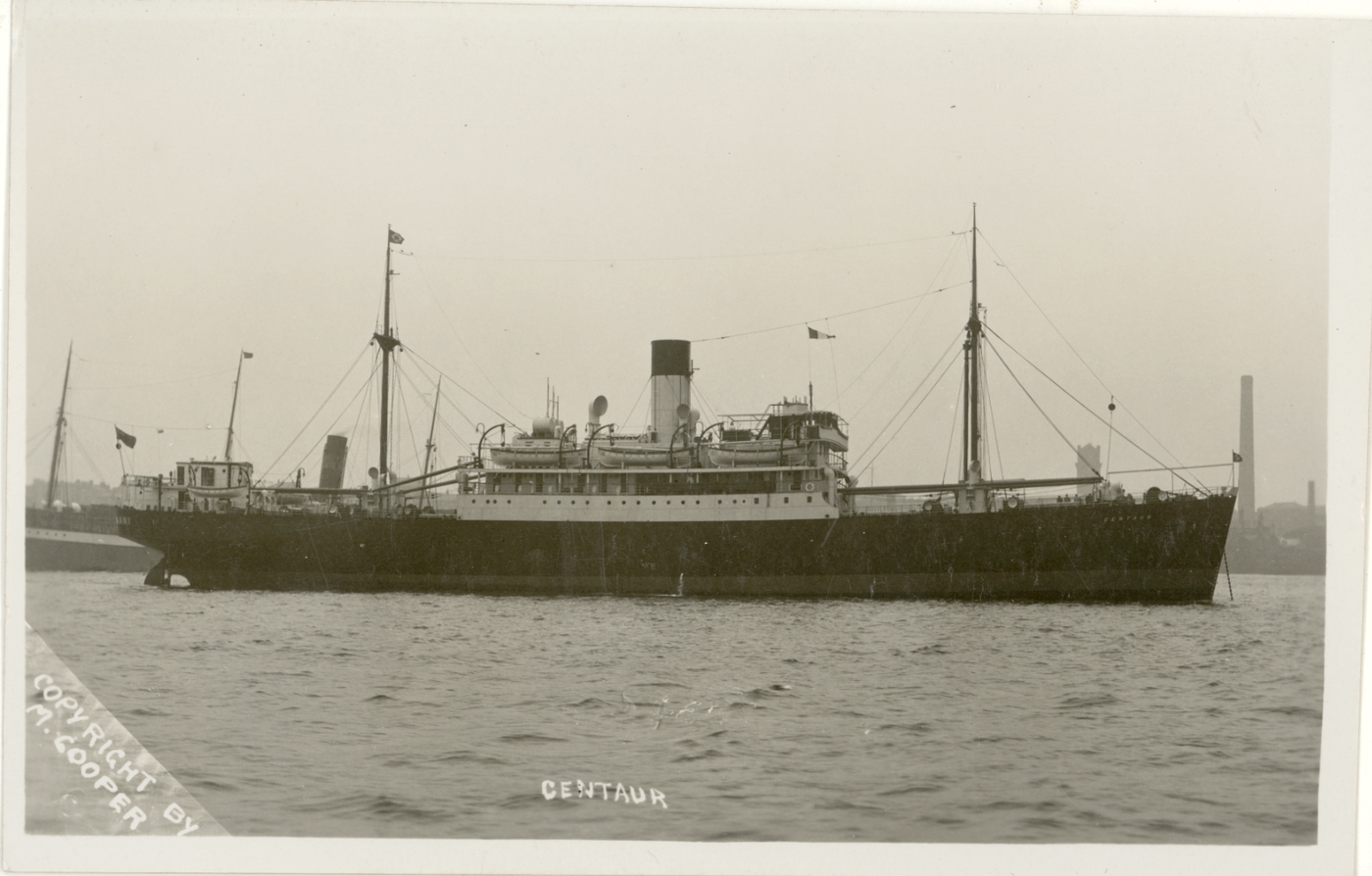 Despite the regulation hospital ship markings, a full moon, night lighting and the removal of all offensive weapons from her, the Japanese sank the Australian hospital ship Centaur seventy years ago on 14 May 1943. For the story of Centaur, see: Rest in peace. Lest we forget. Format: Photograph Notes: Find more detailed information about this photograph : .au/item/itemDetailPaged.aspx?itemID=448518 Search for more great images in the State Library's collections: .au/search/SimpleSearch.aspx From the collection of the State Library of New South Wales